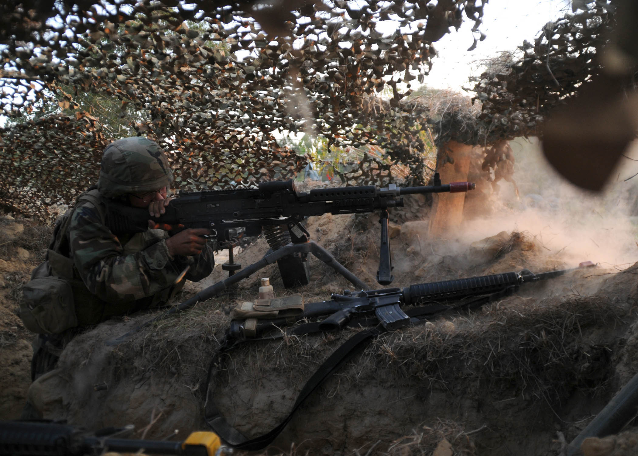 CAMP SHELBY, Miss. (Oct. 17, 2010) Equipment Operator Constructionman Travis Love, assigned to the air detail of Naval Mobile Construction Battalion (NMCB) 74, fires blank training rounds through an M240B machine gun from his defensive fighting position. NMCB-74 is conducting their field training exercise to prepare the battalion for a deployment later this year. (U.S. Navy photo by Mass Communication Specialist 2nd Class Michael Lindsey/Released)